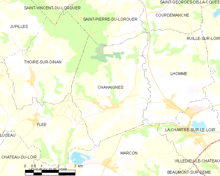 Map of French municipality